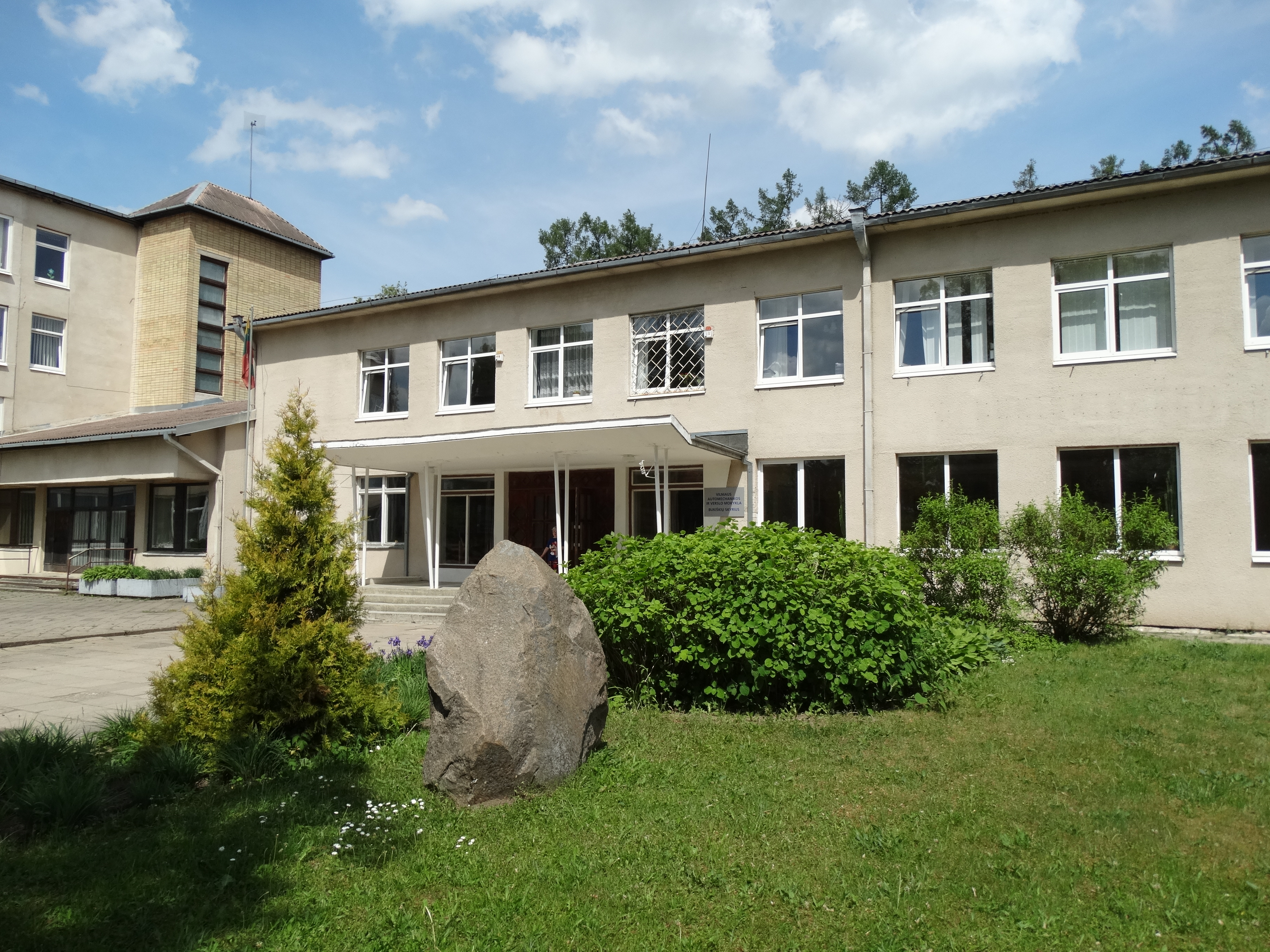 School of Agriculture, Bukiškės, Vilnius District, Lithuania